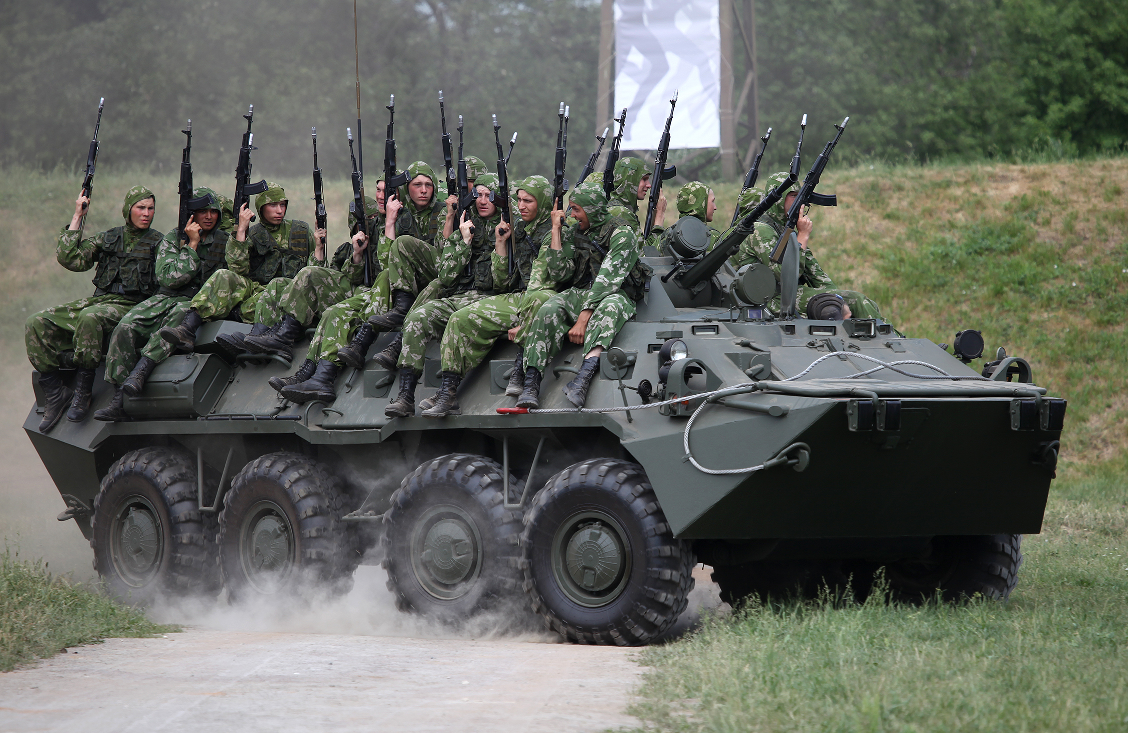 Recon battalion of 2nd Guards Tamanskaya Motor Rifle Division